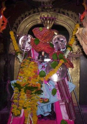 Idol of Lord Sidhhanath in temple in Mhaswad.